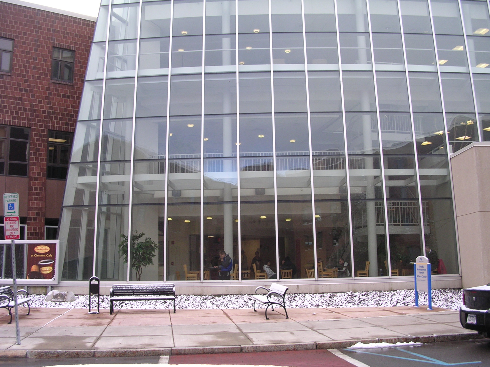 The Alfiero Center serves as a student-focused facility and houses academic and career development offices that assist the nearly 3,000 students who enroll each year in the School of Management. It also features an Internet café; three high-tech classrooms; an entrepreneurship suite; and dedicated space for student clubs, meetings, and group projects. The undergraduate mezzanine on the second floor, like the MBA mezzanine on the third floor, overlooks the building's multi-story atrium. Wireless computer technologies are integrated throughout the building, giving management students around-the-clock access to business research and market data.